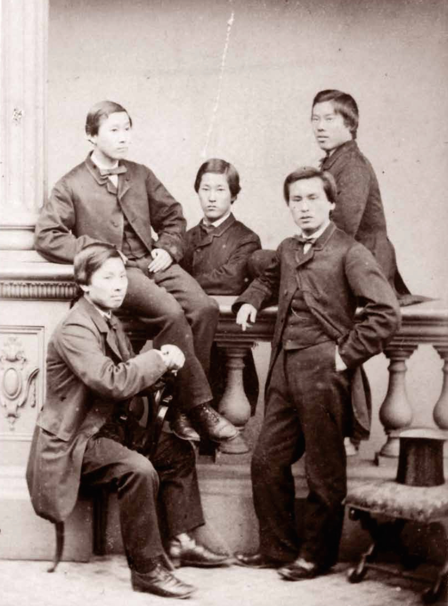 The Choshu Five in 1863